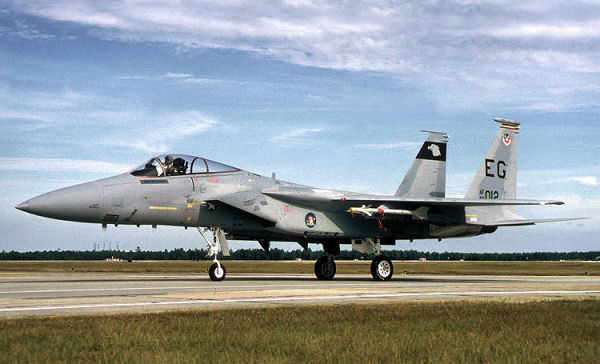 F-15C of the 33d Fighter Wing, Eglin Air Force Base Florida.